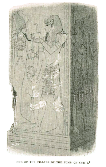 Drawn by Boudier, from a photograph by Insinger, taken in 1884. Taken from HISTORY OF EGYPT Vol. 5 by G. MASPERO